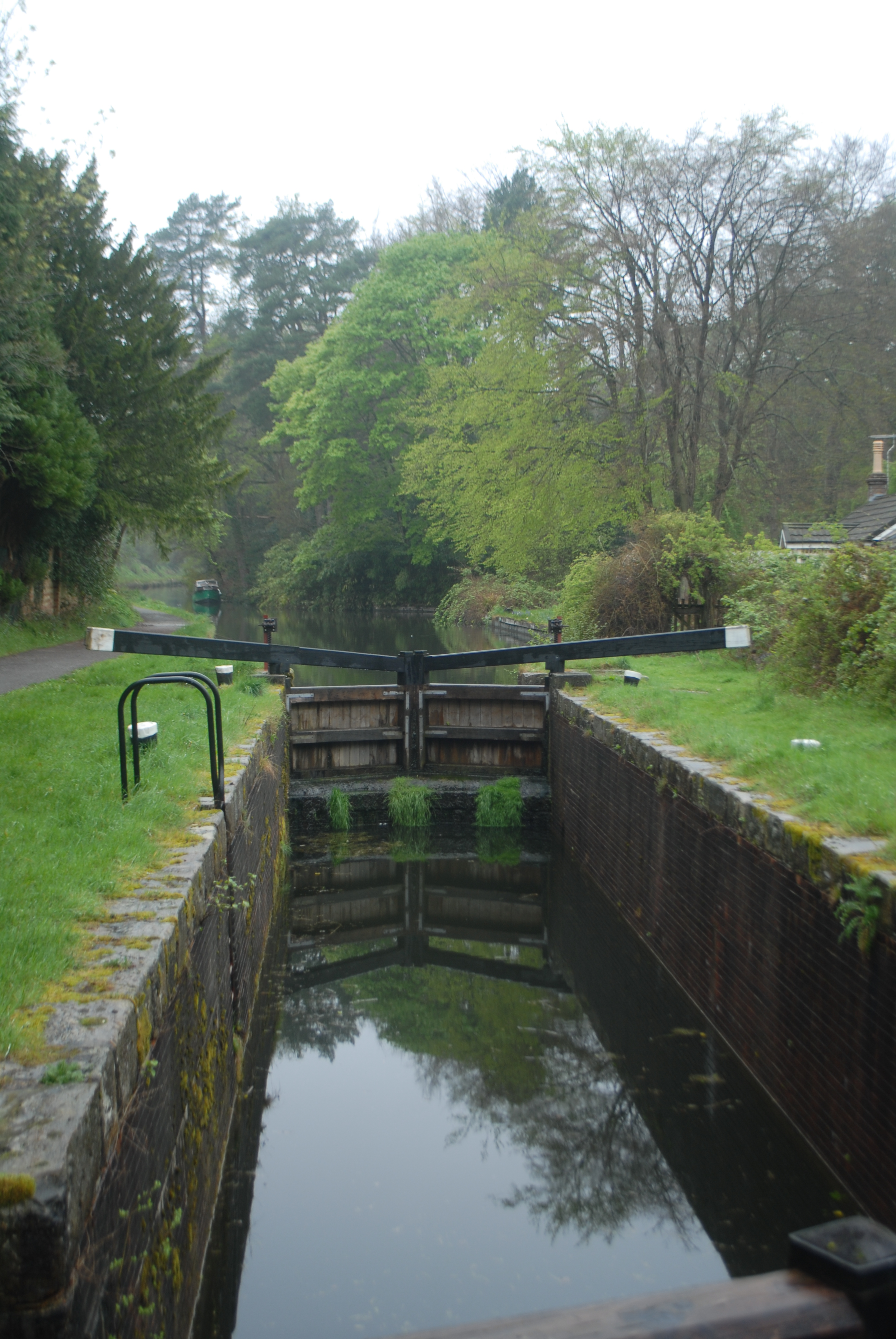 Example of a lock on the Basingstoke Canal